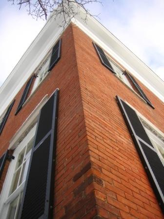 Hamilton White House, Syracuse, New York. Photo 2.